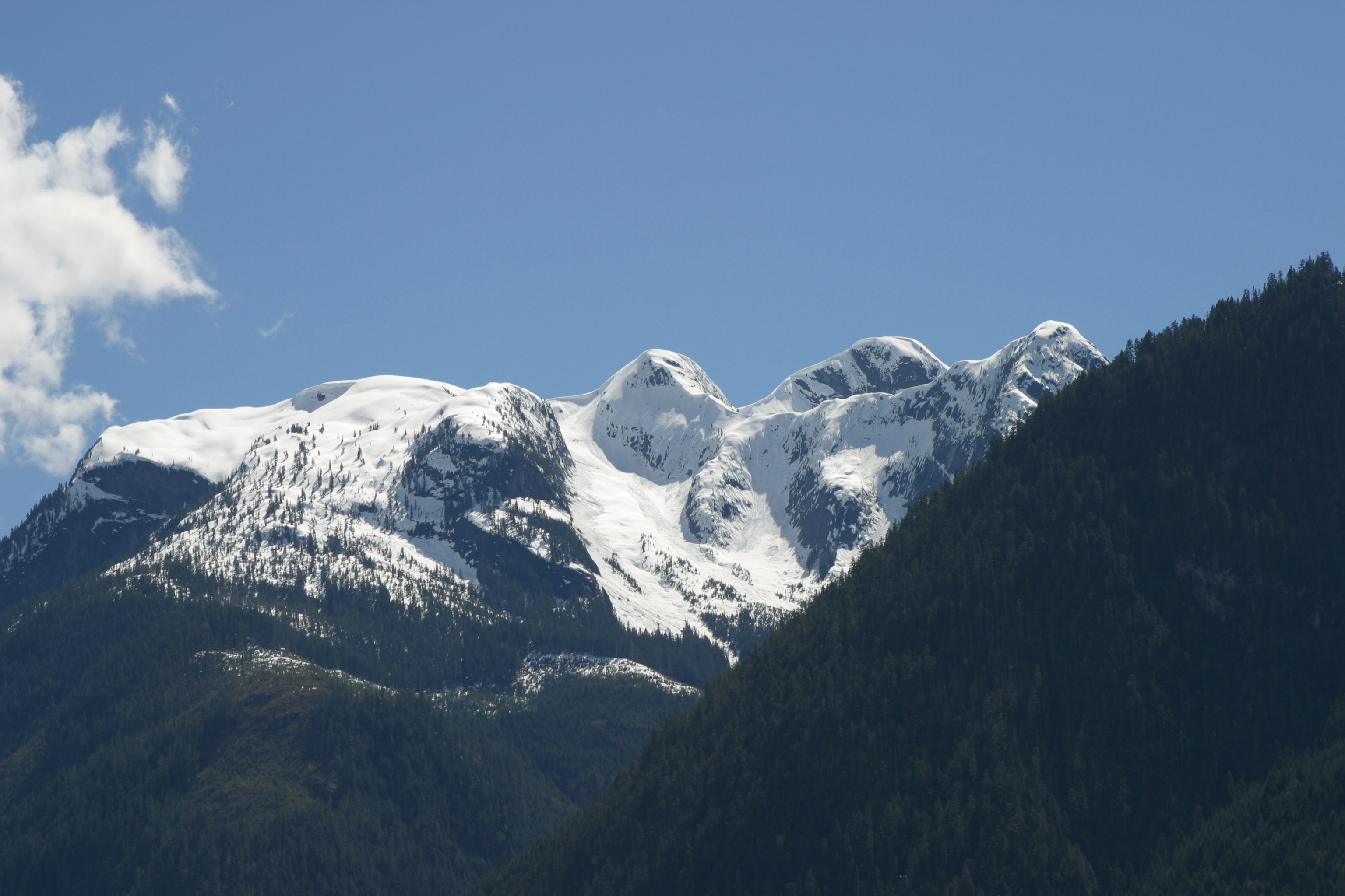 Mt Fredrick William at Jervis Inlet BC/Canada